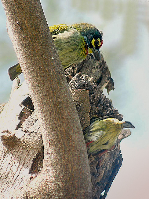 Coppersmith Barbet Megalaima haemacephala in Kolkata, West Bengal, India.